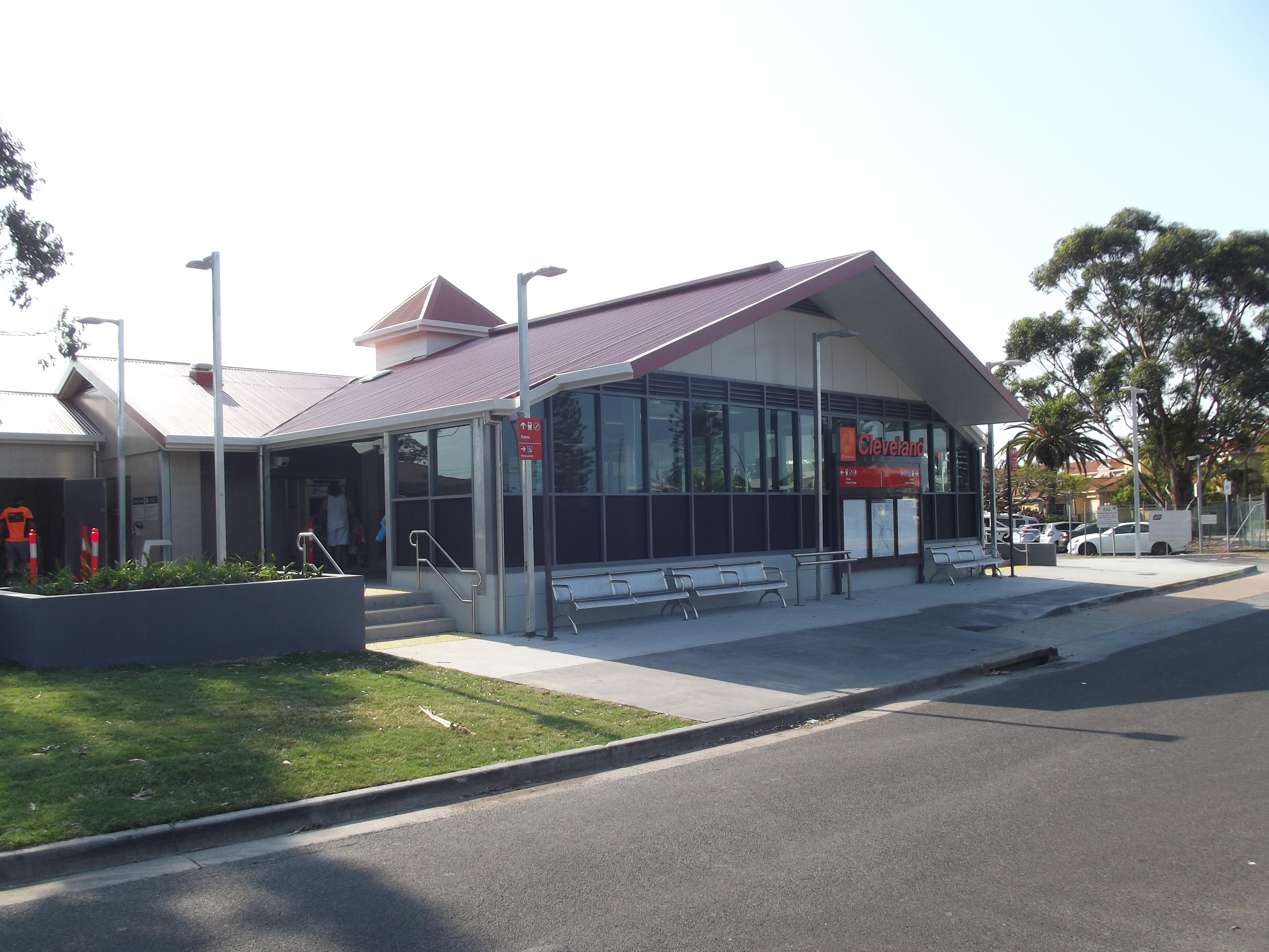 Newly upgraded Cleveland station building.